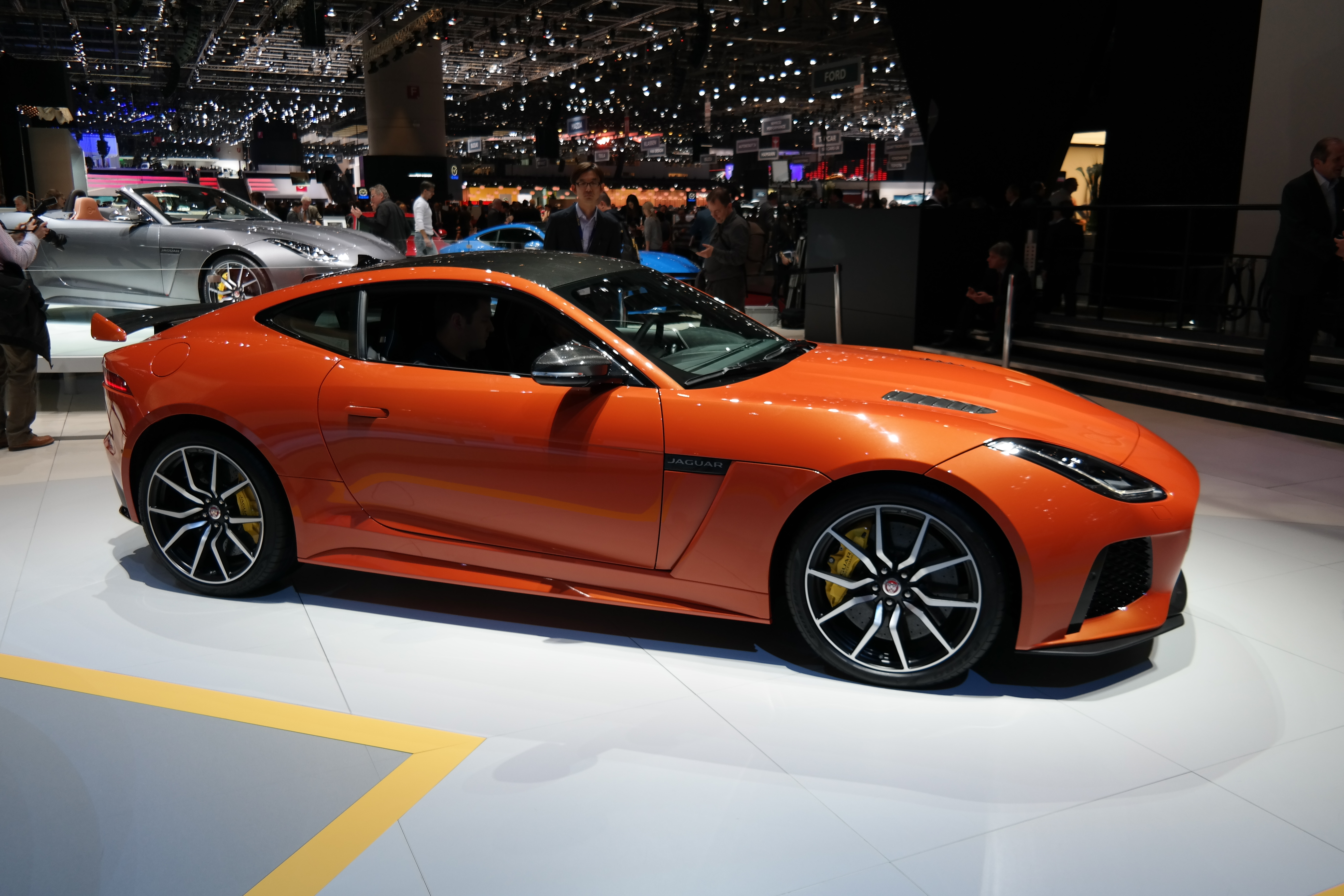 Geneva Motor Show 2016 (photo taken on the first press day)